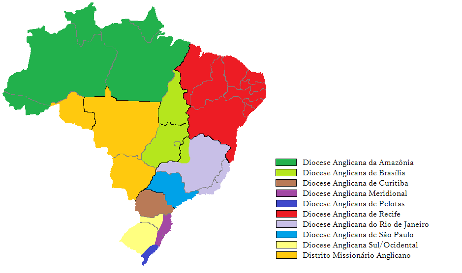 Anglican Dioceses of the Episcopal church of Brazil.